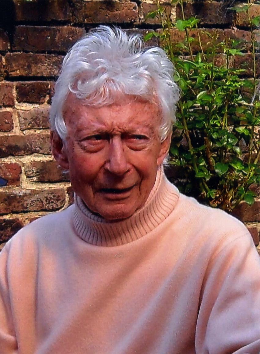 John Goodwin, playwright and author